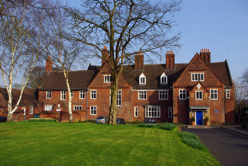 Winterbourne House Winterbourne was built in 1903 for John and Margaret Nettlefold, in Arts and Crafts style. The garden were designed by Margaret Nettlefold, inspired by the books and garden designs of Gertrude Jekyll. The house was later owned by John MacDonald Nicholson. Nicholson died in 1944 and bequeathed the property to the University of Birmingham, becoming the University's botanic garden. Following restoration, the garden was Grade II listed by English Heritage in 2008. The house and garden are now open to the public.